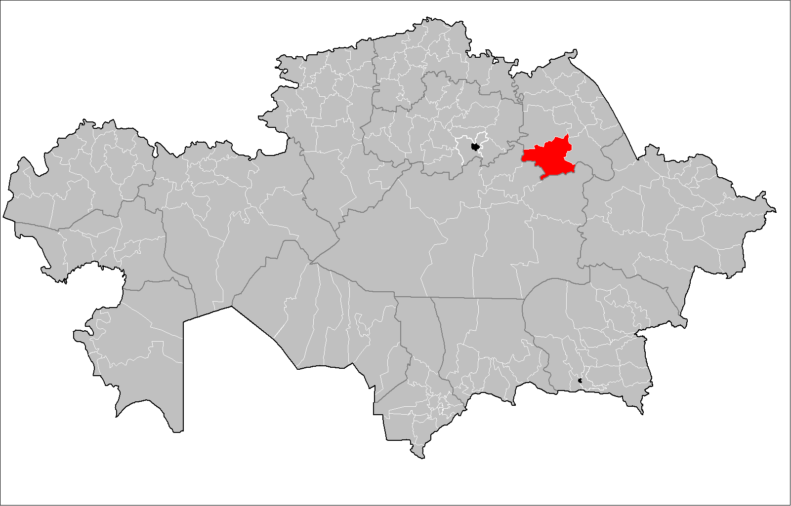 Map of the rayons of Kazakhstan. Created by Rarelibra 16:49, 3 August 2007 (UTC) for public domain use, using MapInfo Professional v8.5 and various mapping resources.